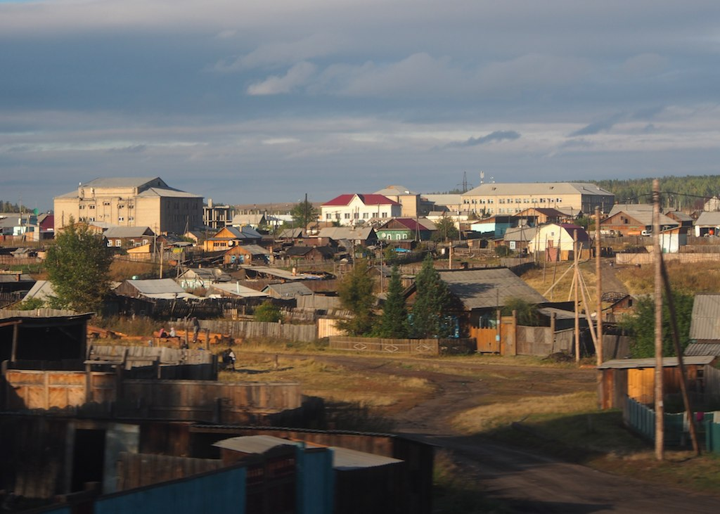 On the Trans-Siberian in the Irkutskaya Oblast, Russia